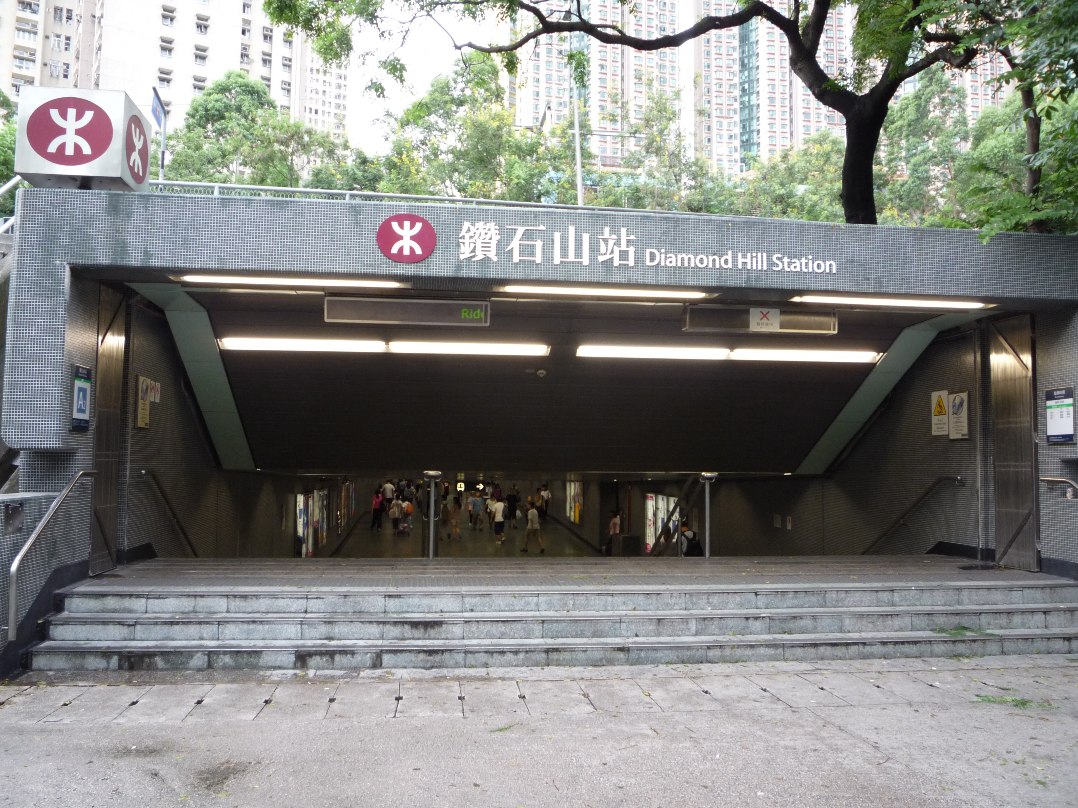 MTR Diamond Hill Station Exit A2